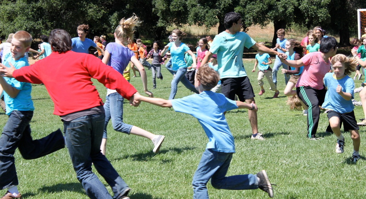 Oak Grove School, Ojai, California, The Art of LIVING & LEARNING Oak Grove is a progressive co-educational day and boarding school serving preschool through college preparatory high school students in beautiful Ojai, California.